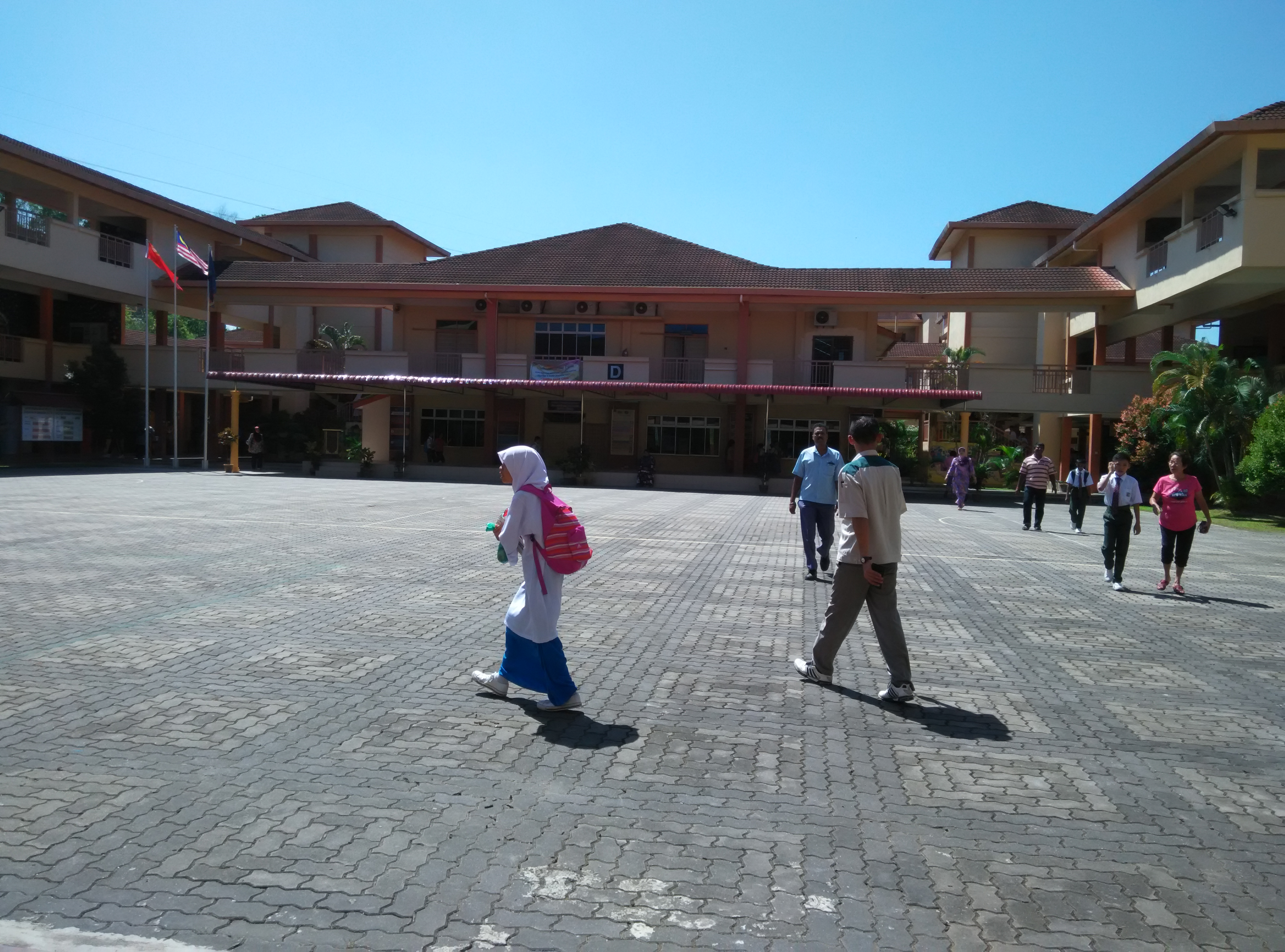 SMK Bakar Arang in 2015, block D. The day was when students were registering for SMKBA. It was captured outside Makmal Fizik 1.